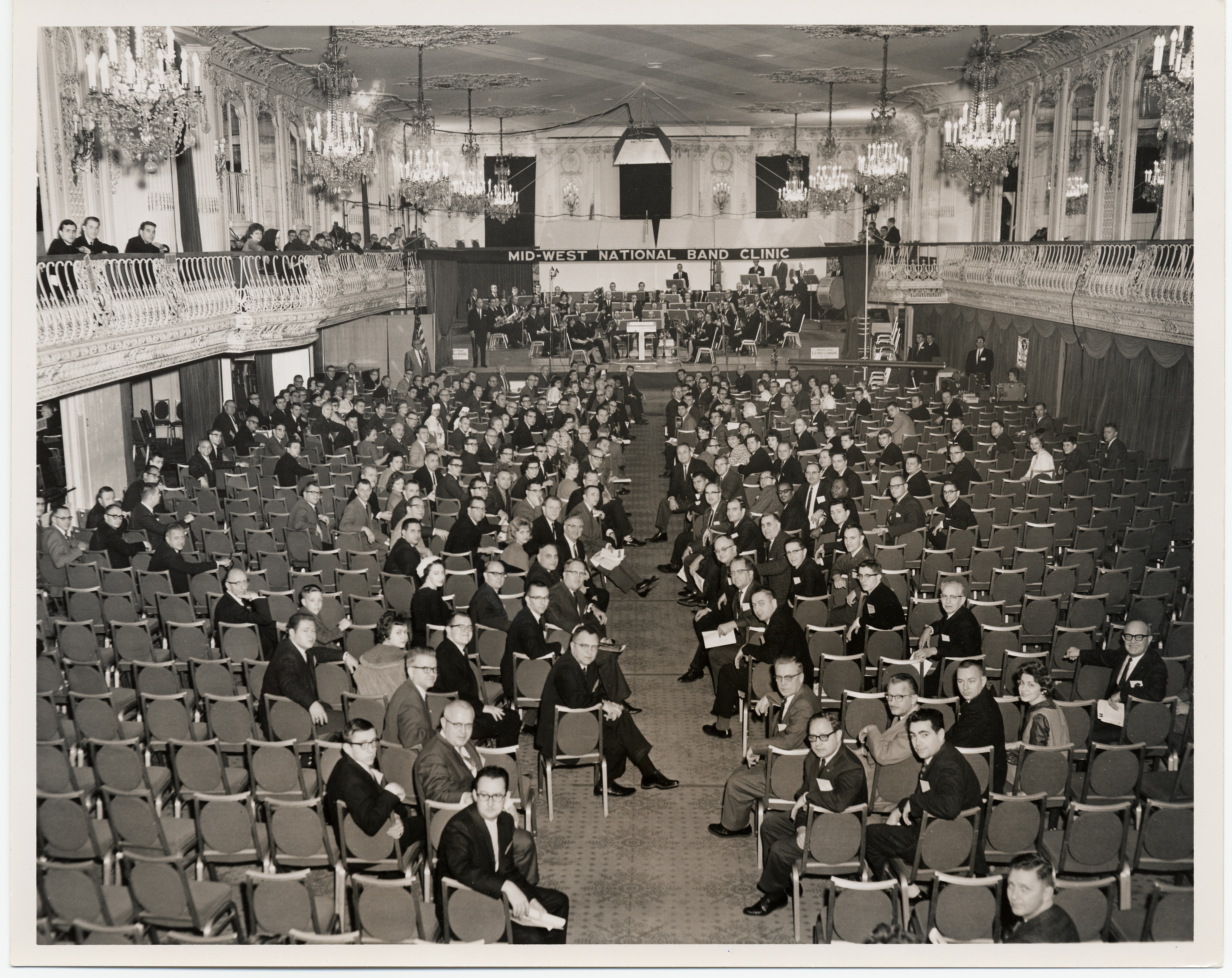 Early photograph of the Midwest clinic, unknown date